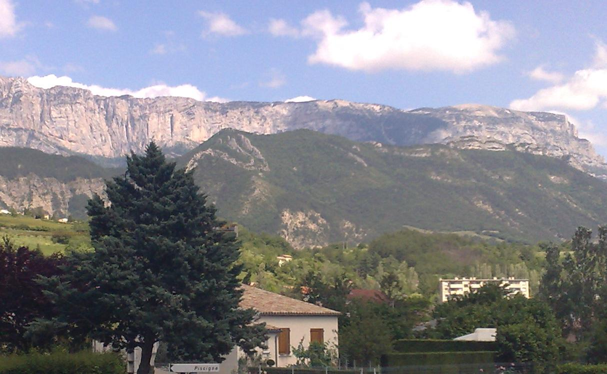 Mountain Glandasse seen from the city Die, Drôme, France